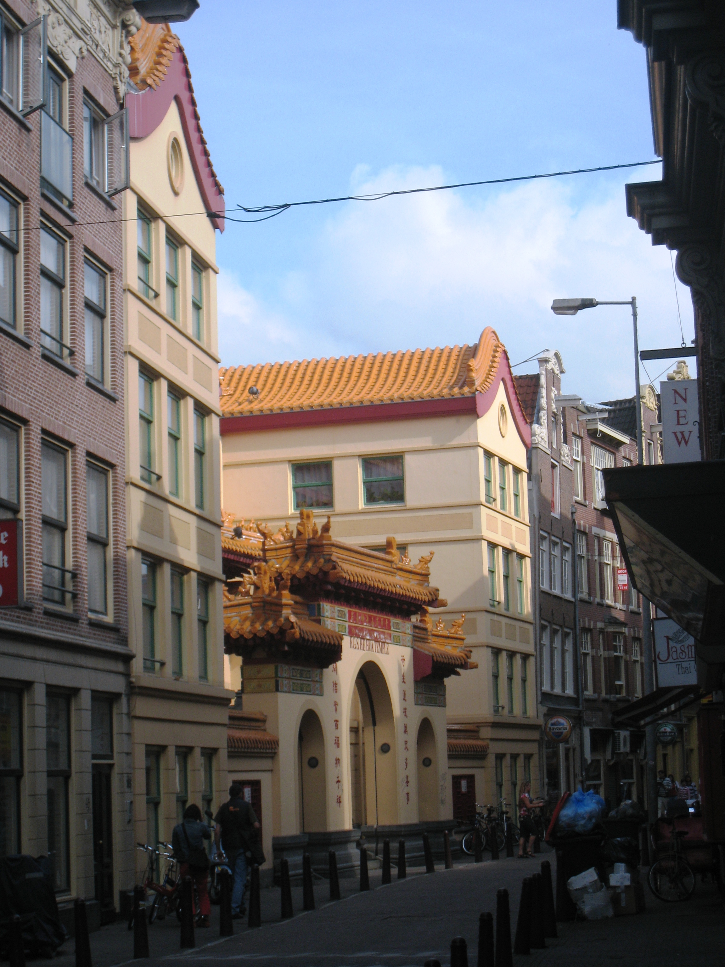 He Hua tempel, Amsterdam